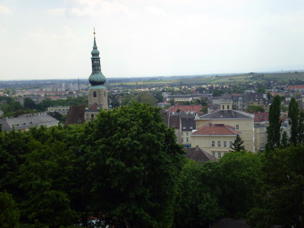 View of Baden Baden. View of Baden, Austia, Baden.